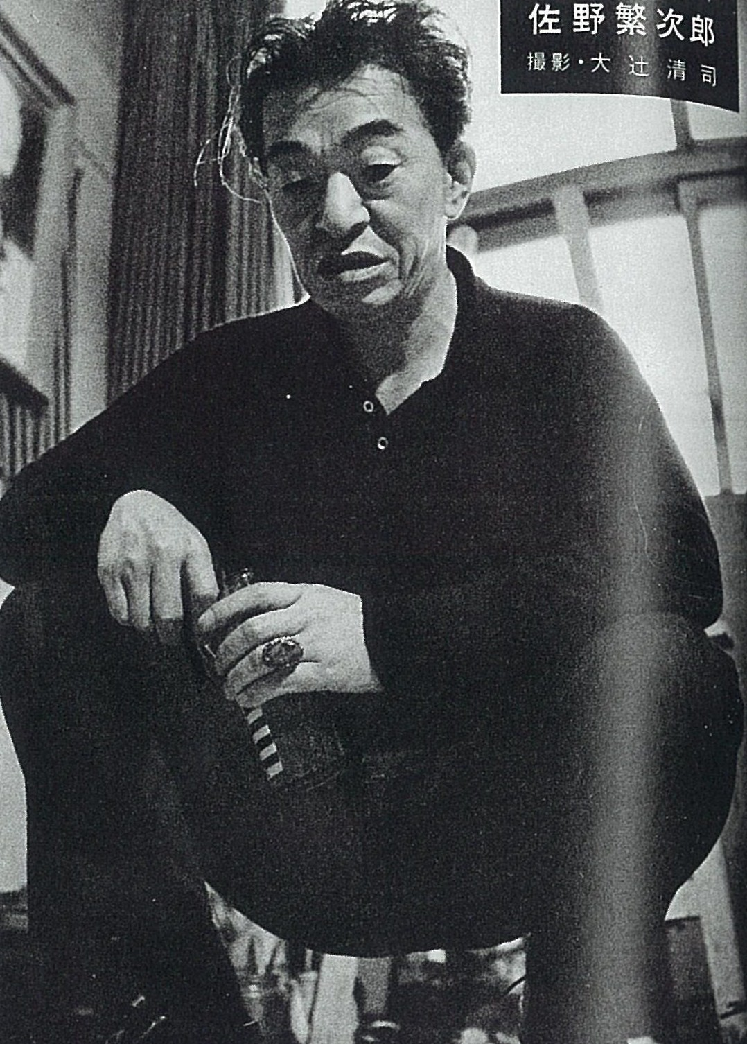 Shigejiro SANO (1900-1987), Japanese painter